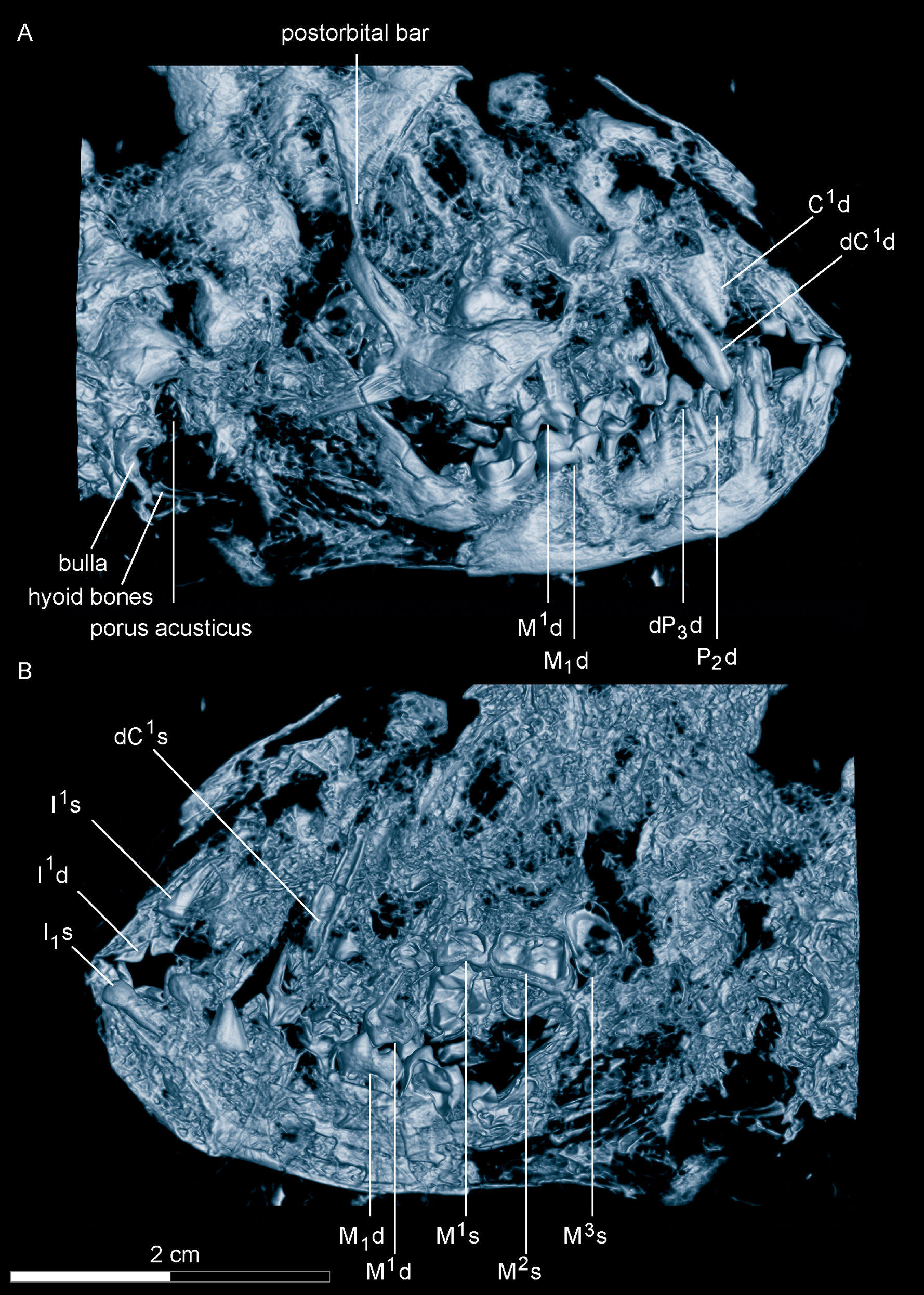 Micro-CT of the skull of Darwinius masillae, new genus and species. (A)— CT image of the skull in plate A, viewed from the right side. (B)— CT image of the skull in plate A, viewed from the left side. Note the presence of a postorbital bar, parts of the auditory bulla below the acoustic opening, and possible hyoid bones.